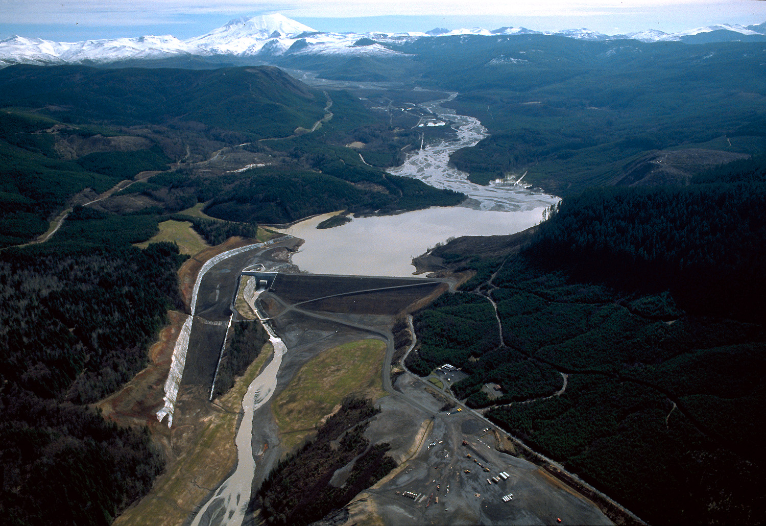 A dam on the North Fork of the Toutle River in Cowlitz County, Washington, USA. This dam was constructed 1986–1989 by the U.S. Army Corps of Engineers to retain some of the sediment in the Toutle River flowing down from the slopes of Mt. St. Helens. The Corps calls this dam a Sediment Retention Structure. The dam is approximately 22 miles upriver from the town of Castle Rock, Washington.